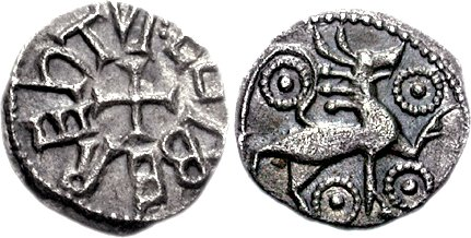 Anglo-Saxons, Kings of Northumbria. Eadberht. 737-758. AR Sceat (1.01 g, 4h). Group G (Pirie regal group Aii). York mint. EOTBEREhTVG•, cross pattée Heraldic quadruped standing right, raising foreleg; four pellet-in-annulets around. Beowulf 109 (this coin); Pirie, Guide 2.1c; North 177; SCBC 847. VF, toned. Rare.